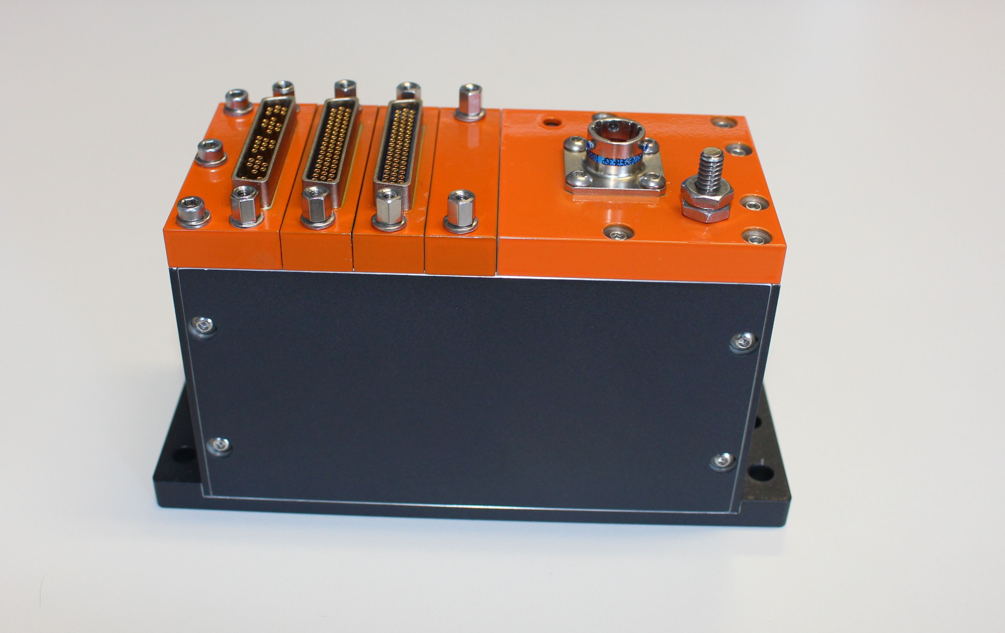 A typical data acquisition system (DAU) that uses a chassis and a number of modules to acquire, condition and transmit data from flight test sources. This DAU has a power supply, a controller module (to control the other modules, for programming and other tasks, and to communicate with the outside world to manage data flow.